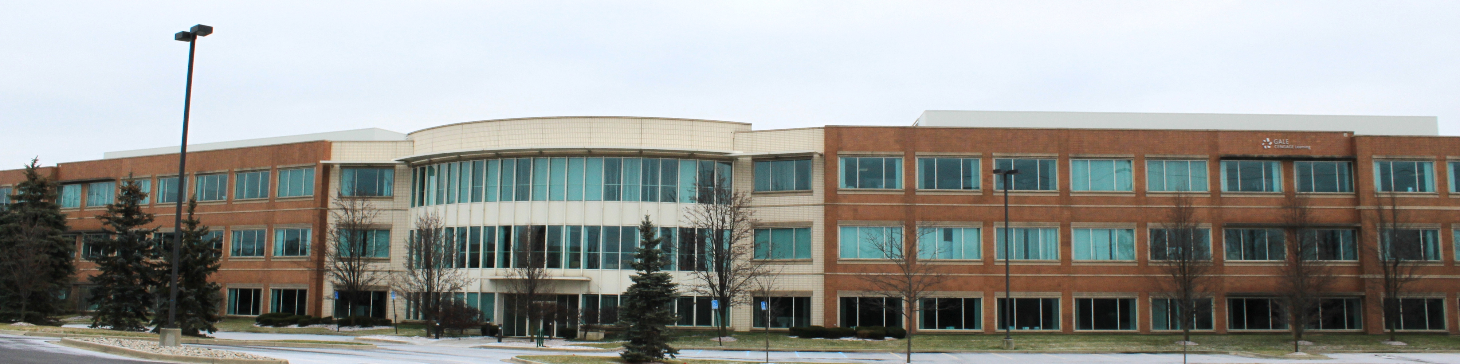 Gale Cengage Learning headquarters building, 27500 Drake Road, Farmington Hills, Michigan